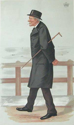 Caricature of William FitzClarence, 2nd Earl of Munster. Caption read "Brighton".